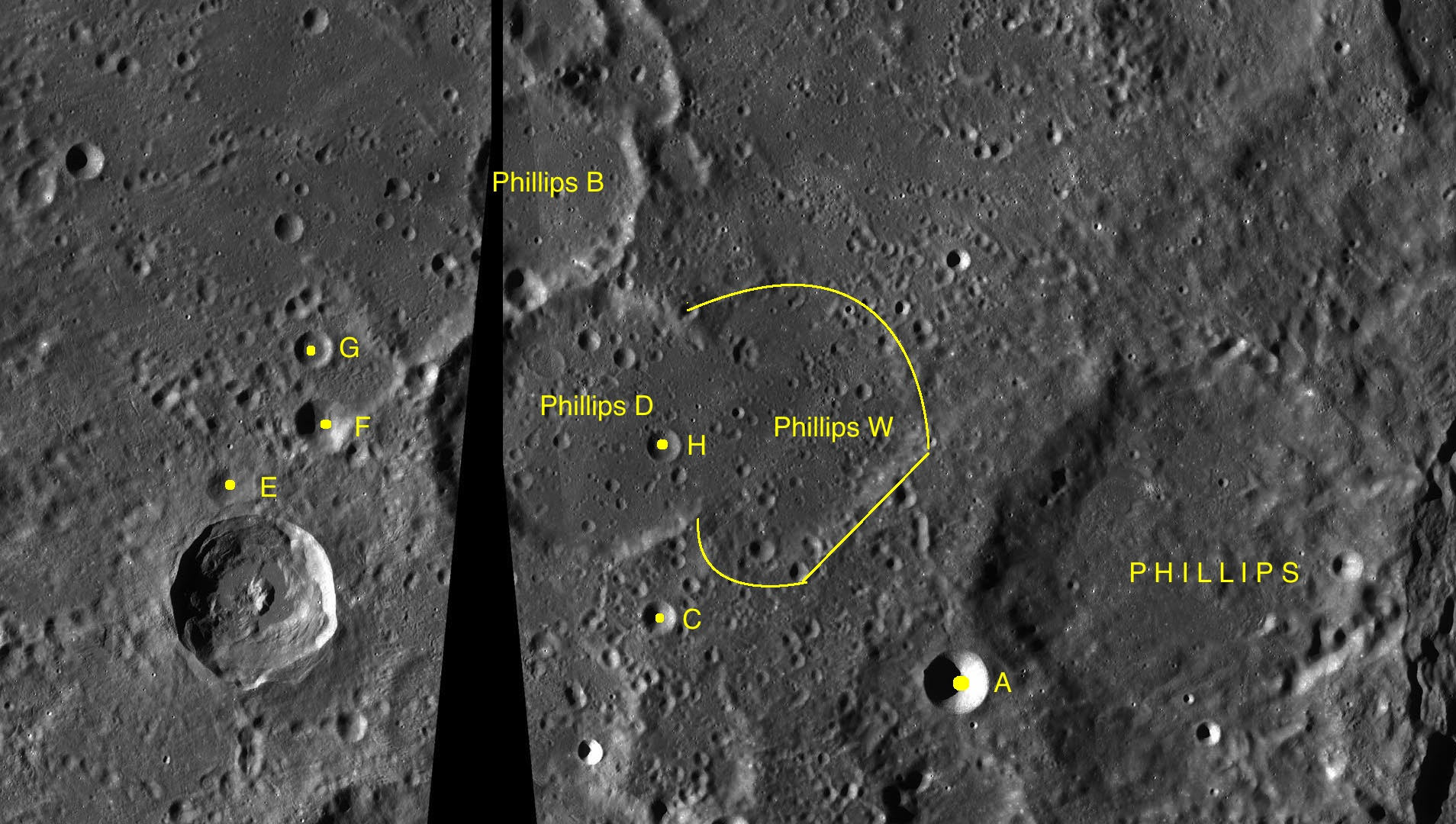 Parts of the charts LAC-98, LAC-99 used for the presentation